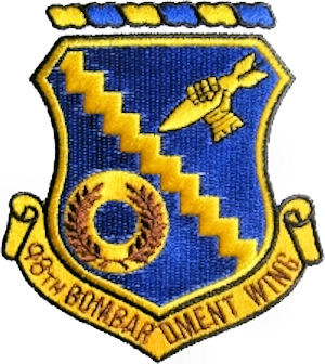 Emblem of the USAF 98th Bombardment Wing